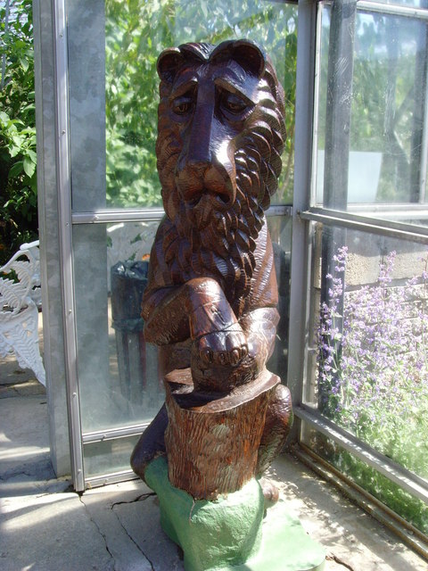 Androcles' Lion, Duthie Park Winter Gardens This statue of a Lion with a bandaged paw (referring to the tale of Androcles and the Lion) has been in Duthie Park since at least the 1970s